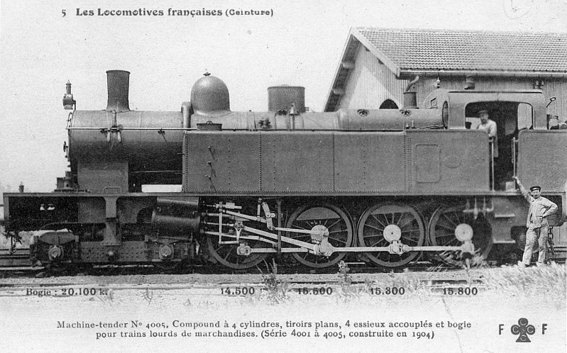 Locomotive 4-8-0 Ceinture #4005, France.